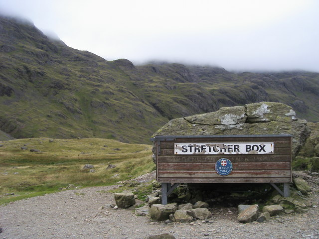 Sty Head Sty Head with the rescue stretcher box